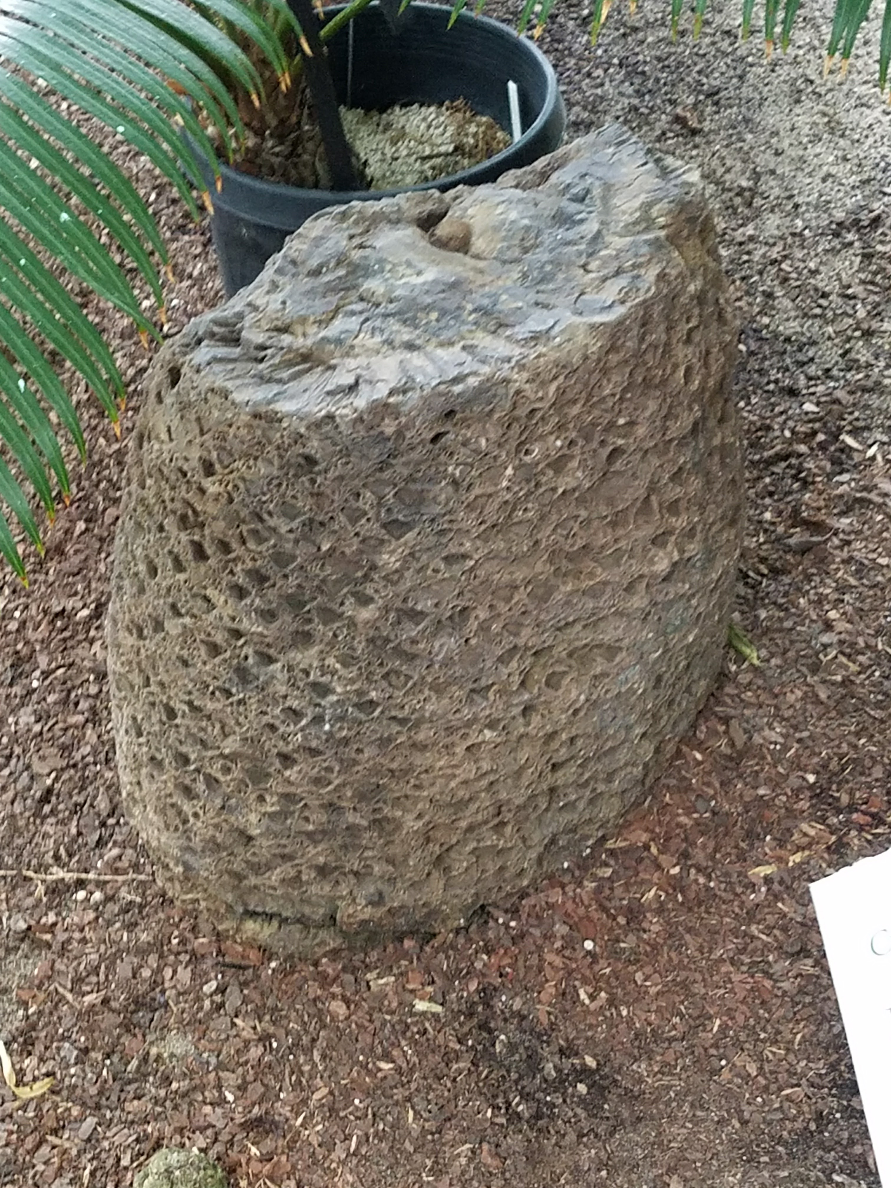 petrified cycad fossil, New York Botanical Garden